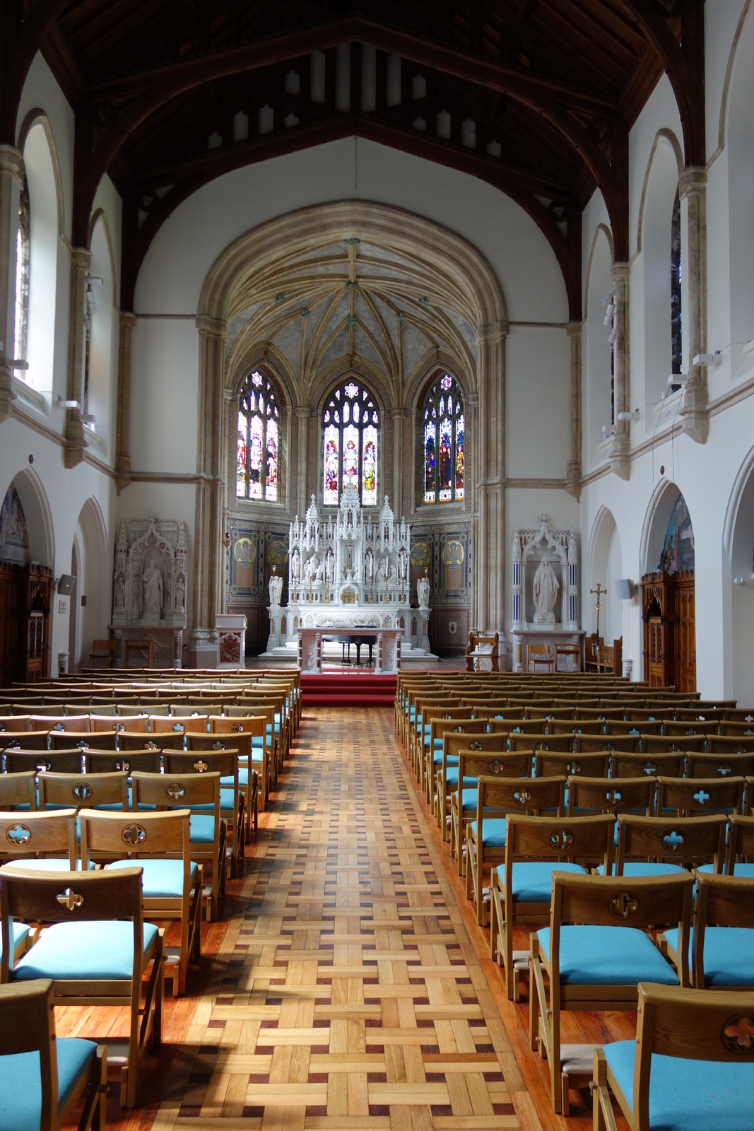 Clongowes Wood College is a voluntary secondary boarding school for boys, located near Clane in County Kildare, Ireland. Founded by the Society of Jesus (Jesuits) in 1814, it is one of Ireland's oldest Catholic schools, and featured prominently in James Joyce's semi-autobiographical novel A Portrait of the Artist as a Young Man. One of five Jesuit schools in Ireland, it had 450 students in 2011/2012 when the fees were €16800 per annum